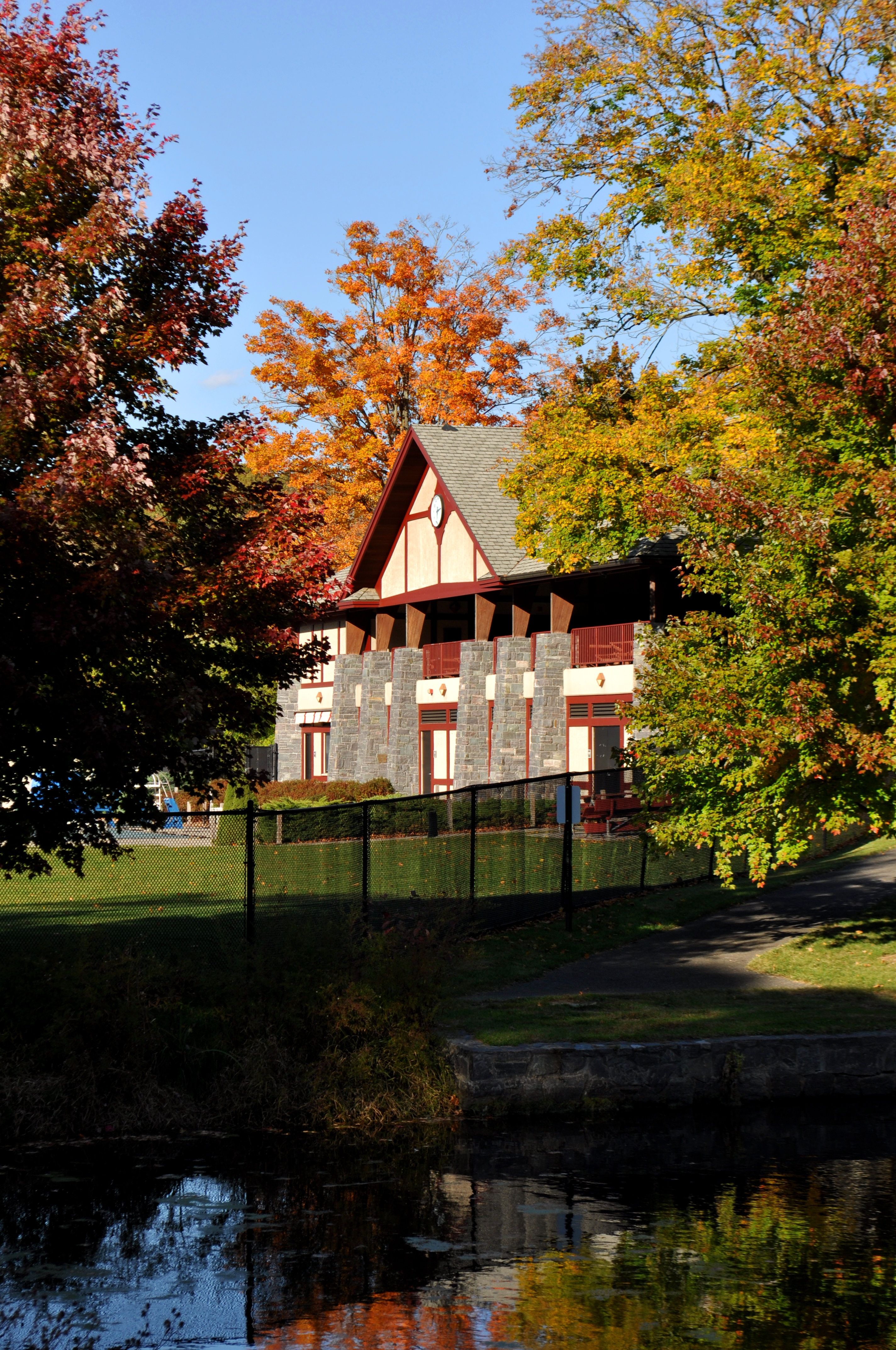 The pavilion at Law Memorial Park, taken October 28, 2013.